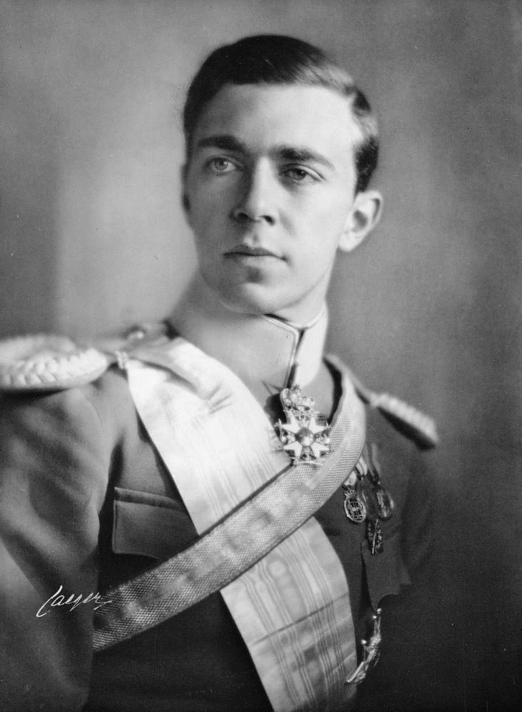 A black and white portrait of Gustavus Adolphus during the time he was still a prince.